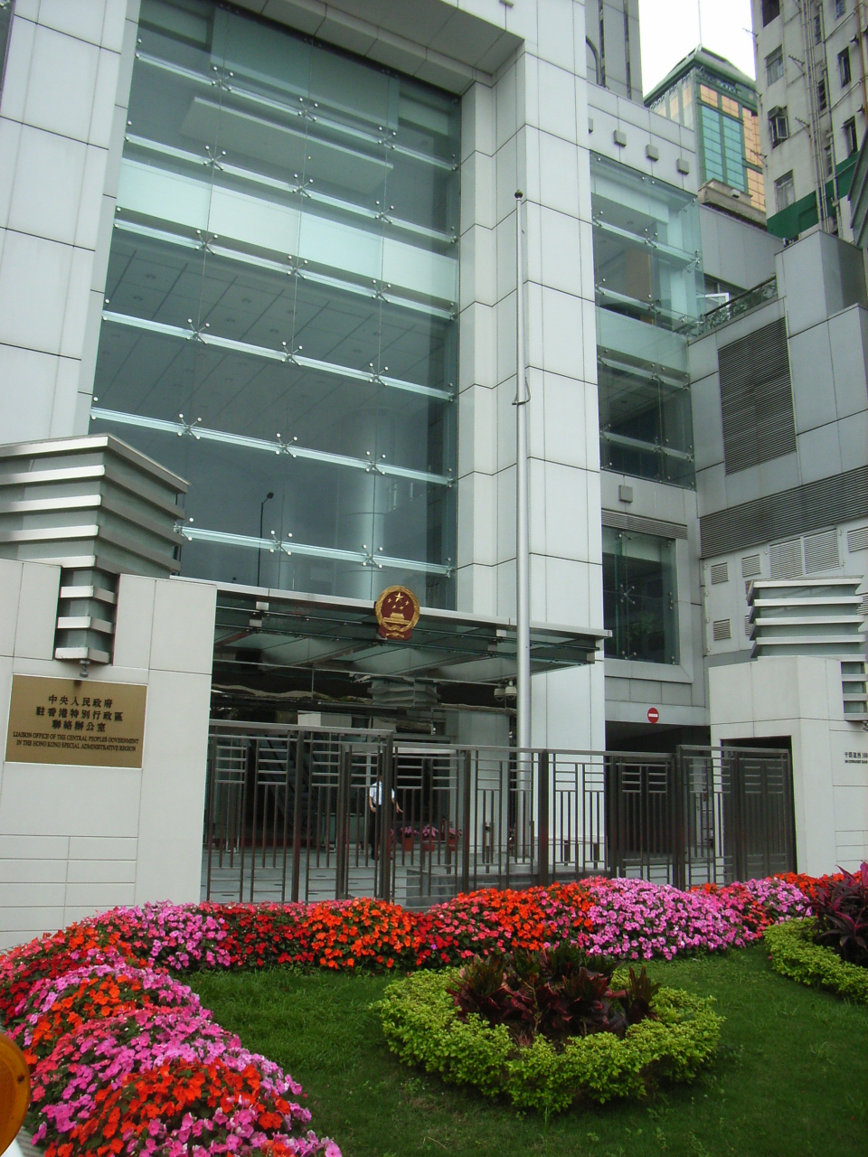 中華人民共和國駐香港特別行政區聯絡辦公室 簡稱 中聯辦 (香港) 英文主名: "Office Of The Commissioner Of The Ministry Of Foreign Affairs Of The People's Republic Of China In The Hong Kong Special Administrative Region"